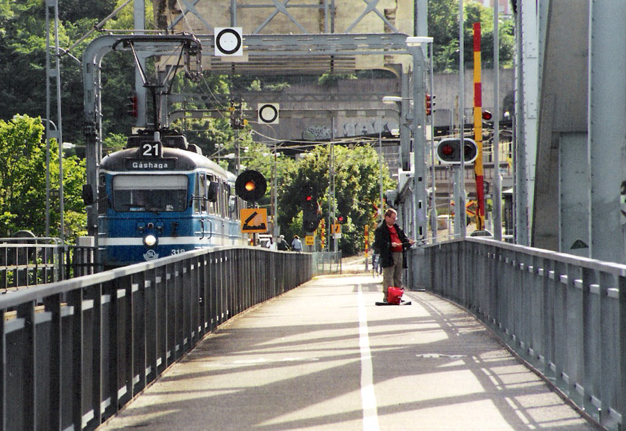 Tramway of the Lidingöbanan line crossing the "old" Lidingöbron (between Ropsten and Torsvik station).